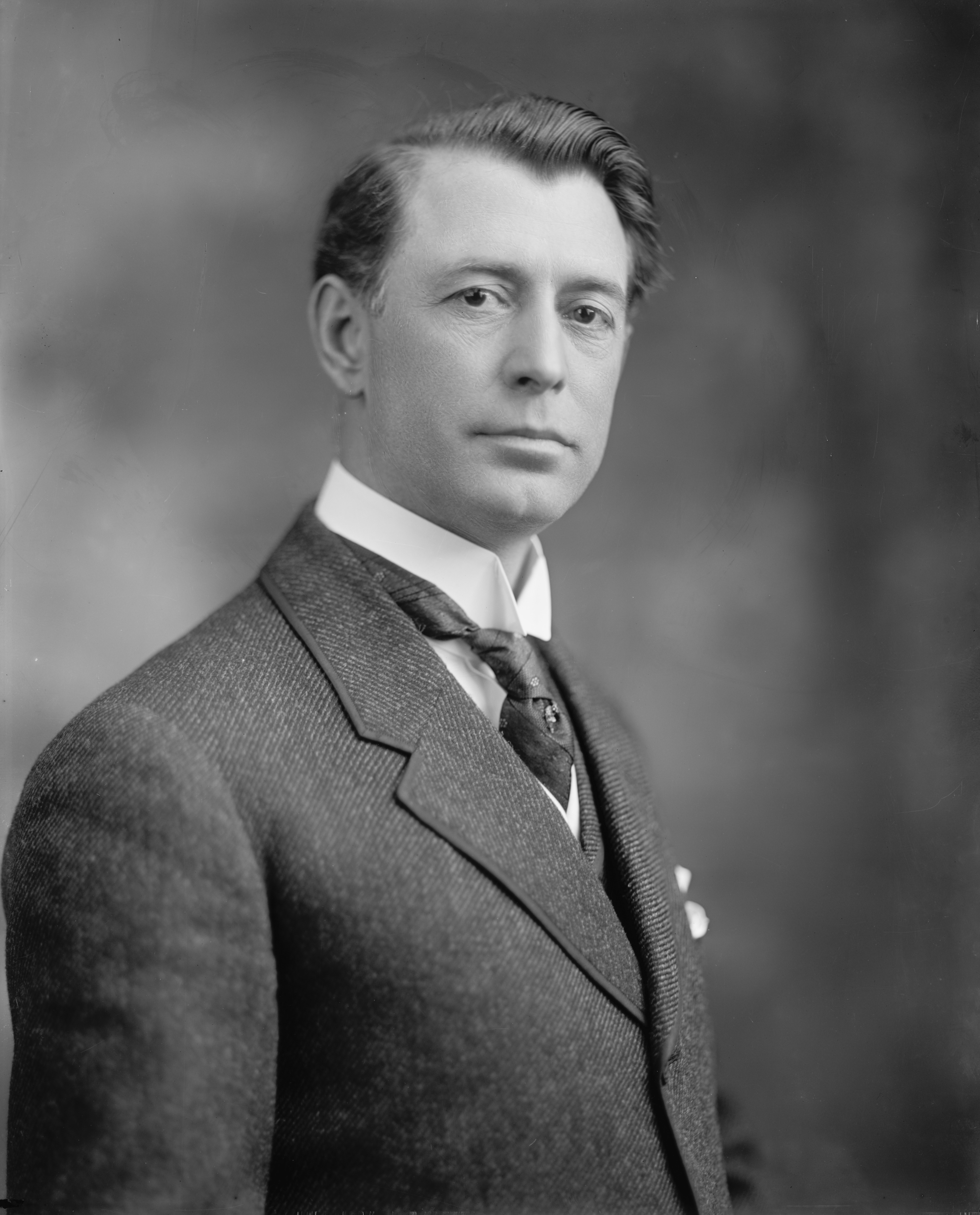 Title: PITTMAN, KEY. SENATOR Abstract/medium: 1 negative : glass ; 8 x 10 in. or smaller